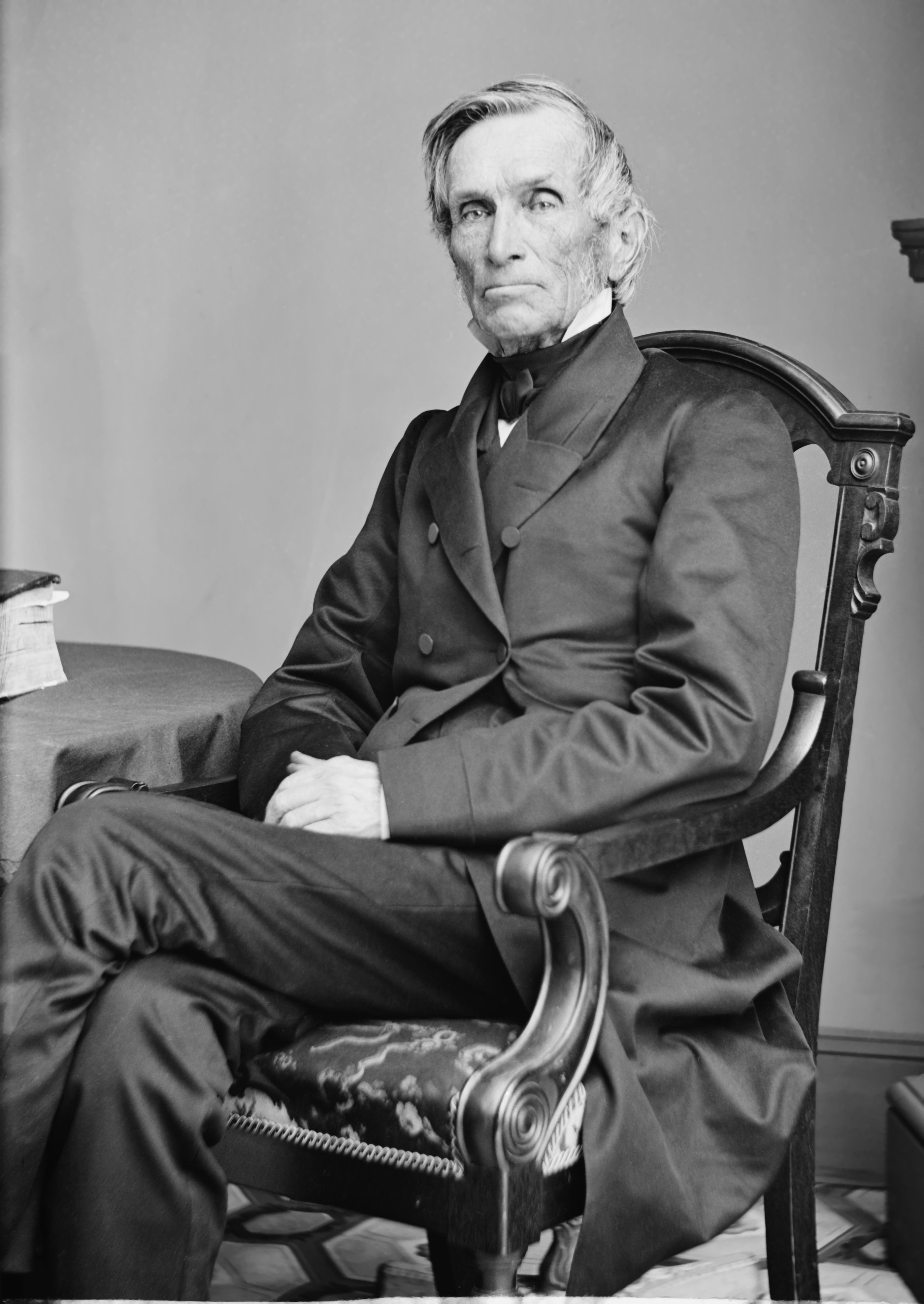 Theodore Frelinghuysen. Library of Congress description: "Hon. Theodore Frelinghuysen of N.J."